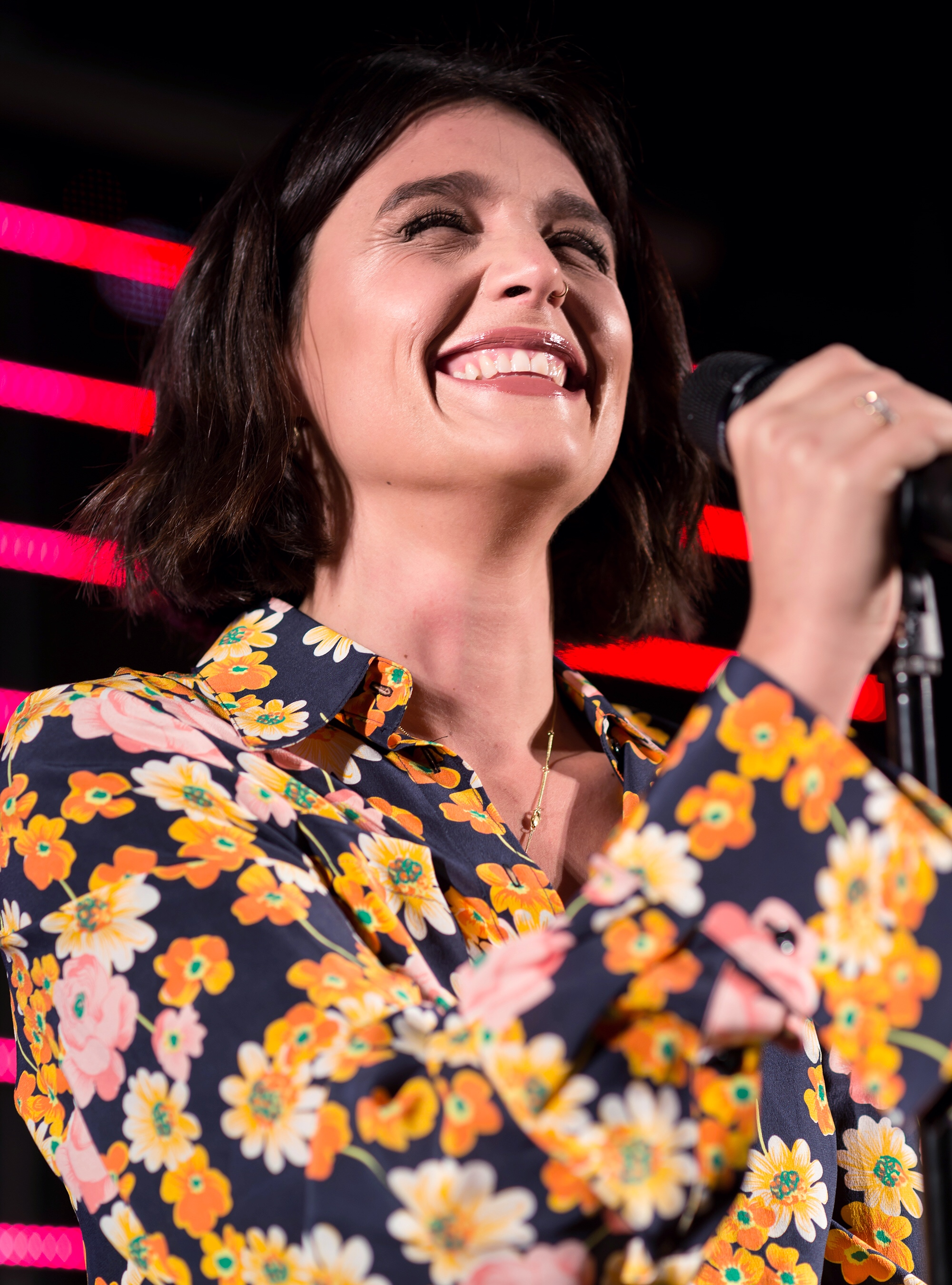 Jessie Ware performing live at Space 15 Twenty in Hollywood, Los Angeles, California, on Sunday, November 5, 2017.